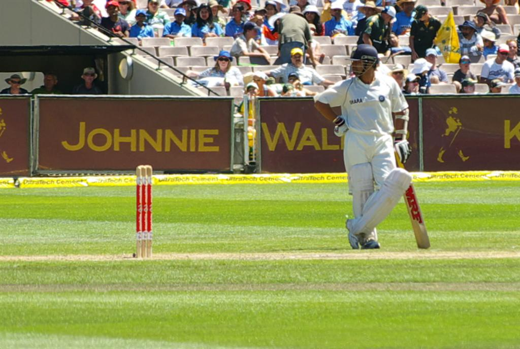 Sachin Tendulkar, Indian cricketer. 4 Test series vs Australia at Melbourne Cricket Ground